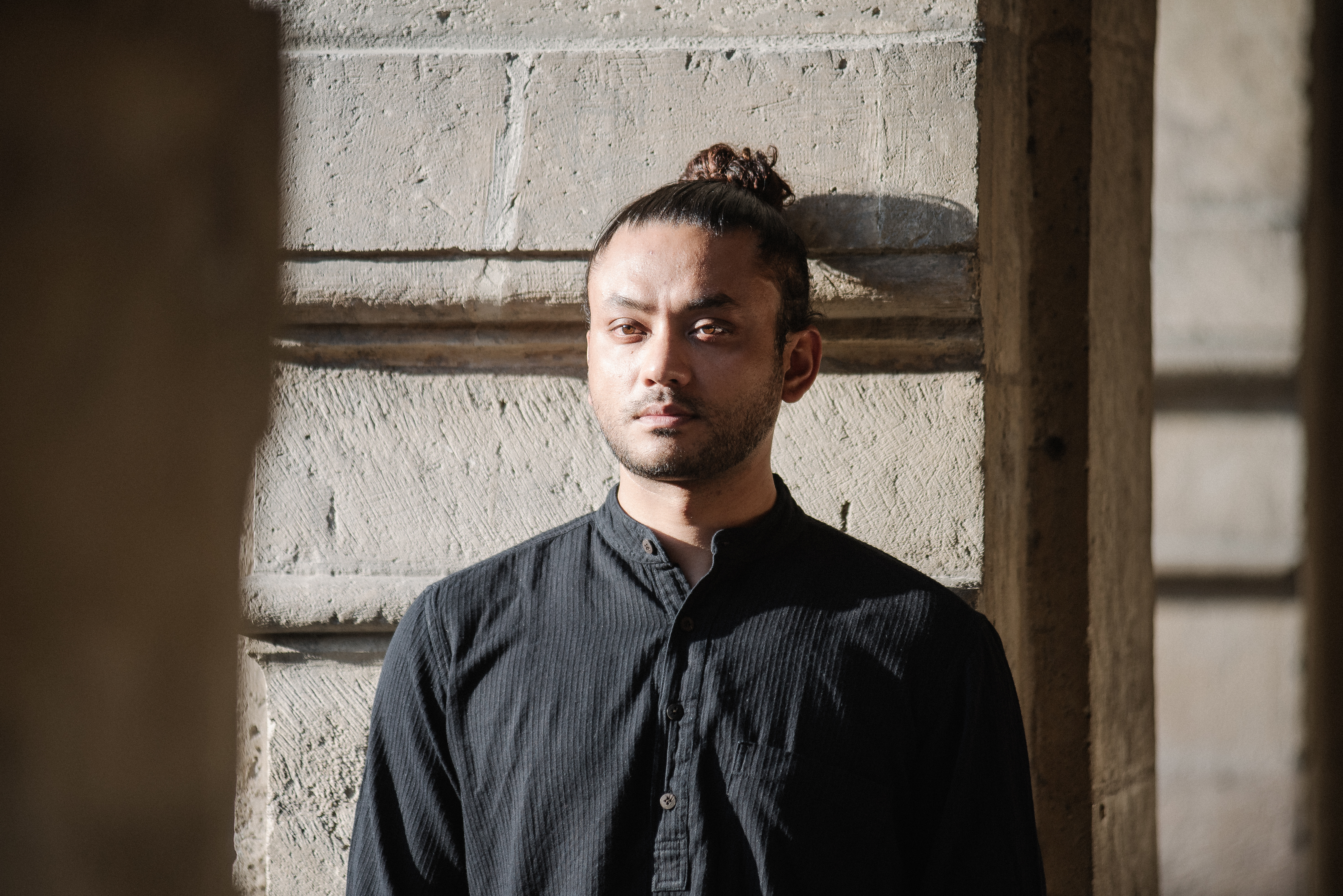 Taken by Marcela Barrios Hernandez in Place des Vosges, Paris